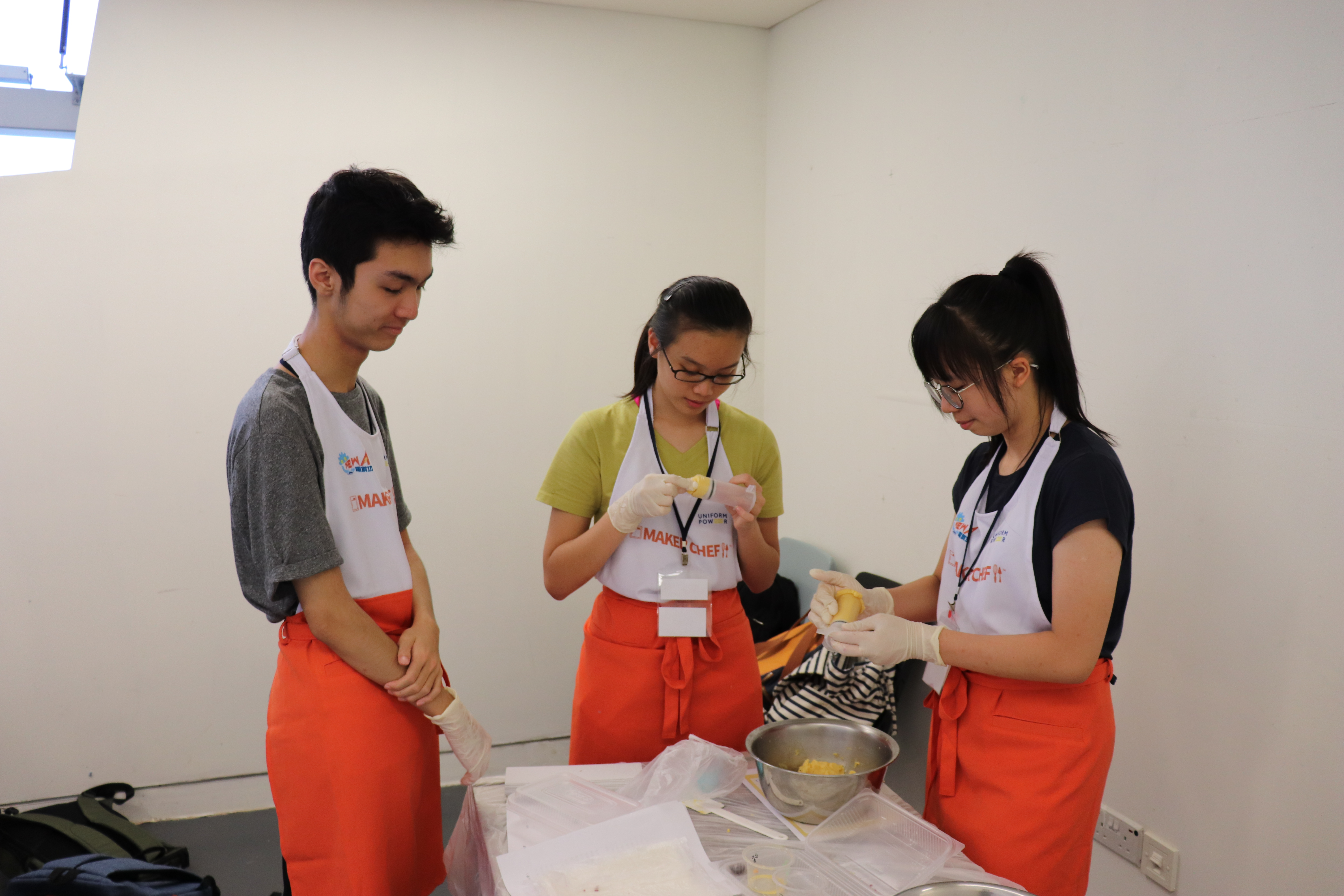 3d food preparation